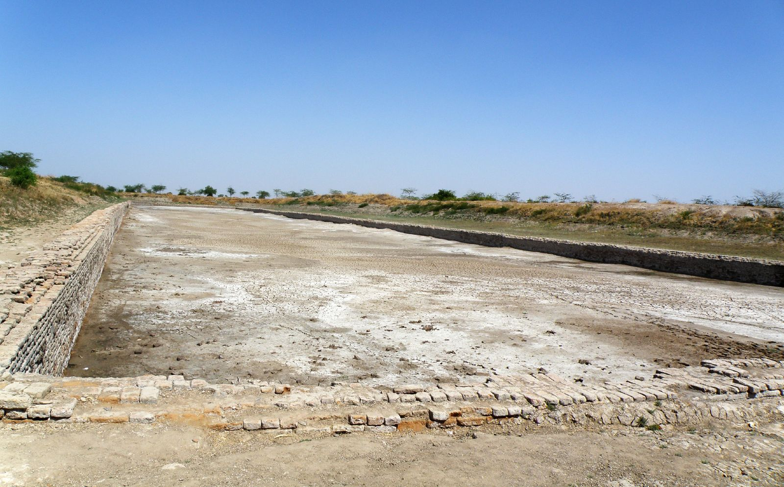 Lothal: Lothal used to be a port in the bronze age. It is a Harappan site. The remains found here date back to 2900BC. Above: The best preserved brick structure found at Lothal. The bricks here are the original mud bricks that the Harappans made(which means that these bricks are at least 4500 years old). Elsewhere in the complex, cement bricks have been laid over the original mud bricks to protect them from tourists.